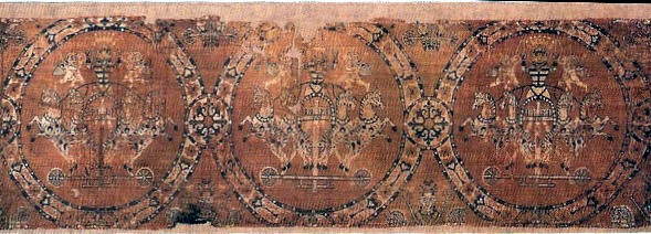 Medallions of a Christian ceremonial clothing depicting the Aerial Flight of Alexander the Great; Byzantine art, 10th c.; Brussels, Royal Museum of Art and History